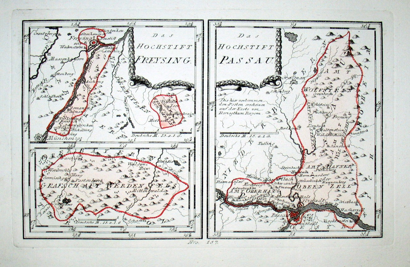 The Prince-Bishoprics (Hochstifte) of Freising and Passau in the late 18th century. Maps by Franz Johann Joseph von Reilly published in 1792.